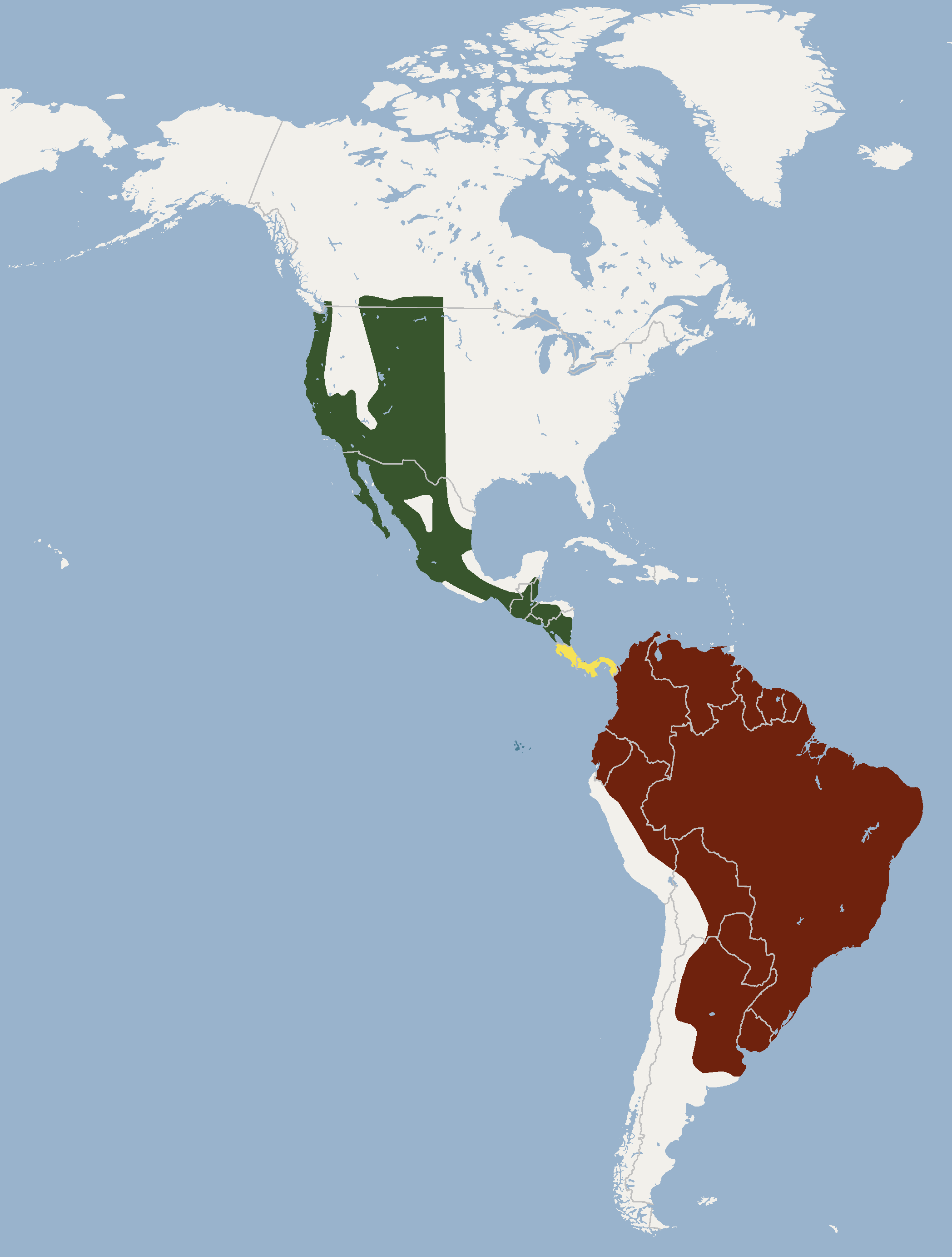 According to Kays & Wilson, 2009, Reid, 2009 and Gardner, 2008